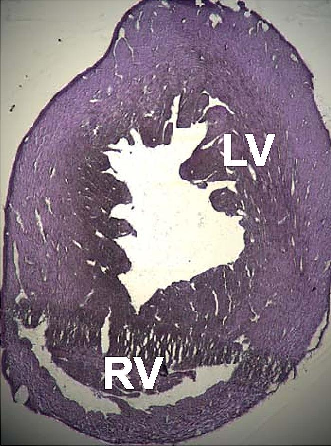 Mouse heart slice showing effects of a mutation that causes Cardiomyopathy dilated